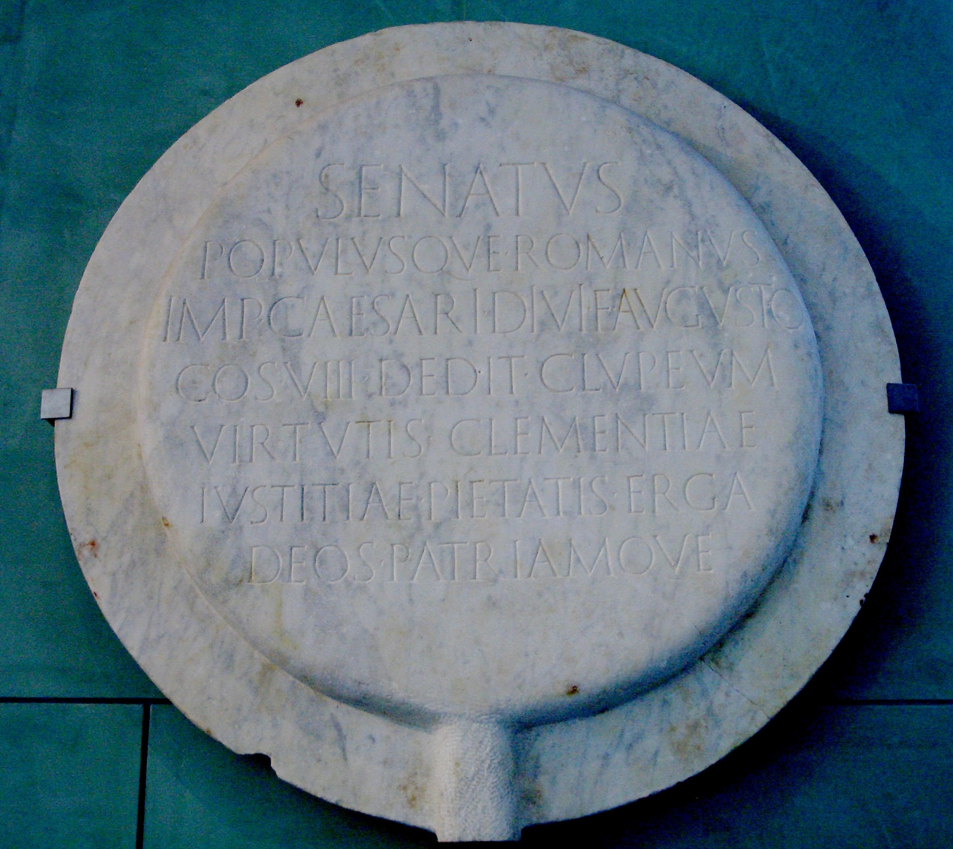 Augustus' "Clipeus virtutis"